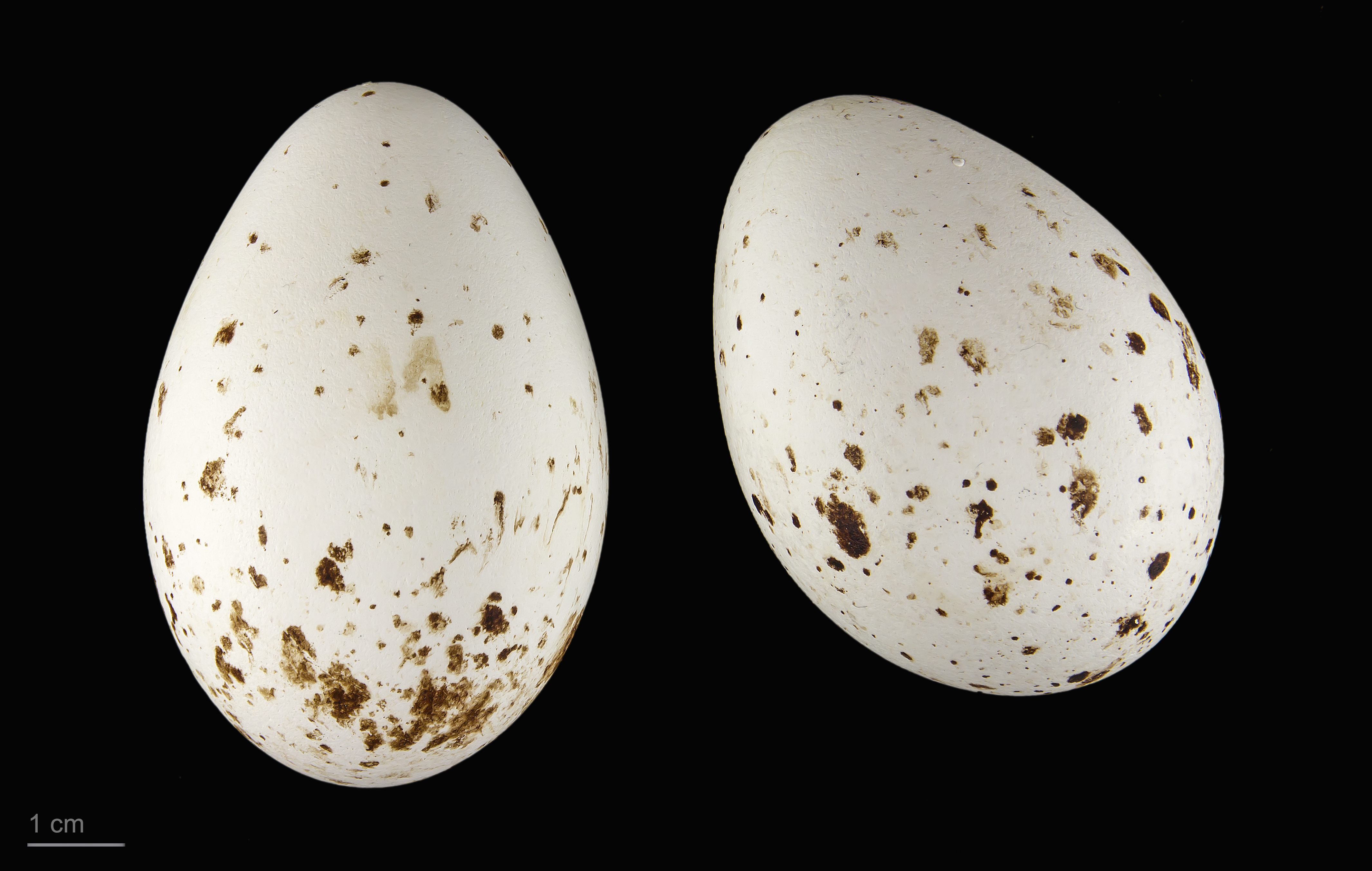 Eggs of Eurasian spoonbill Two specimens of the same spawn ; collection of Jacques Perrin de Brichambaut.